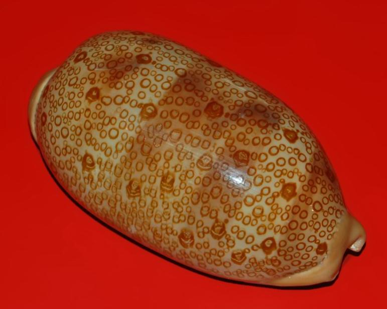 Arestorides argus